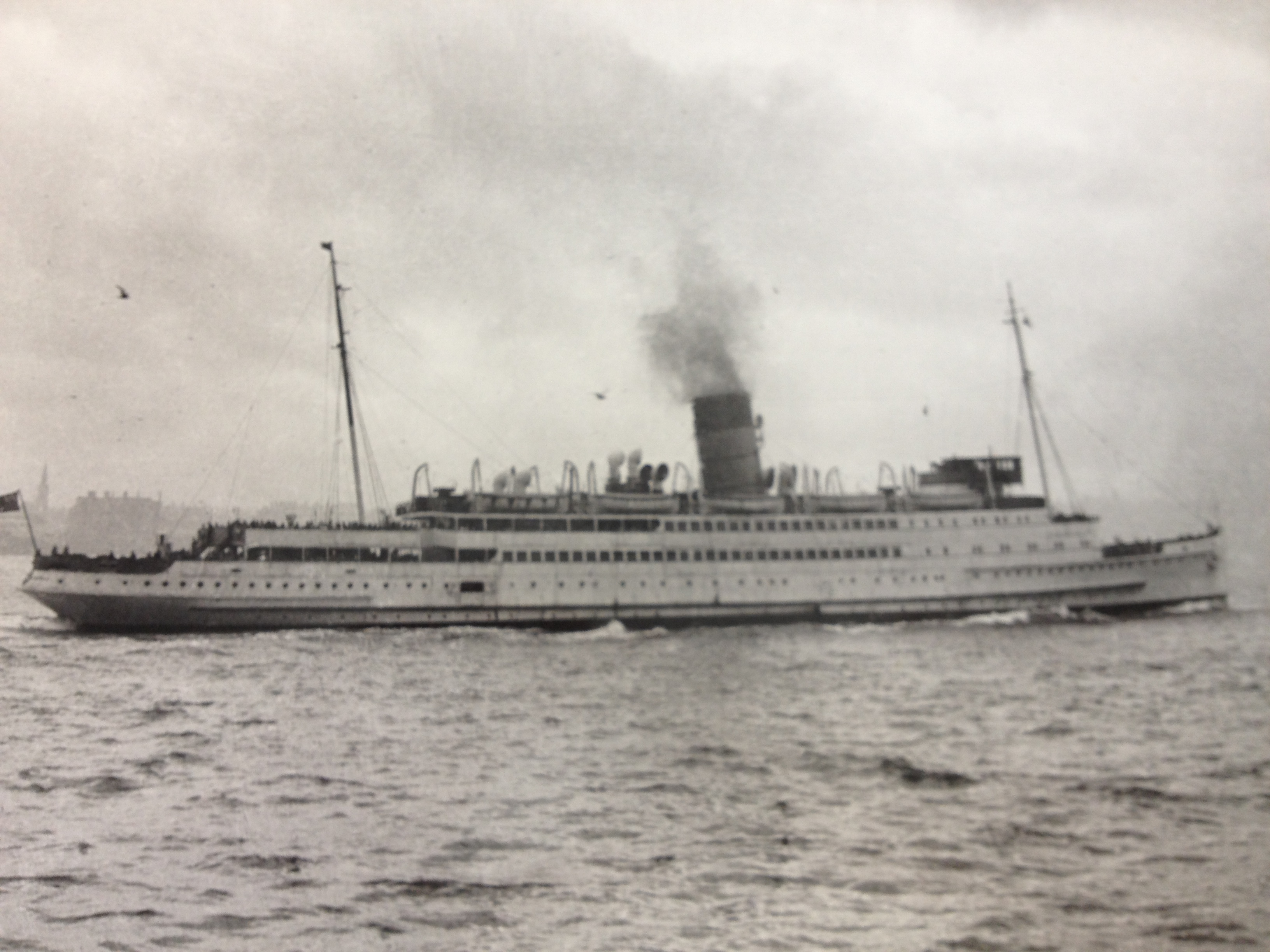 RMS Lady of Mann, pictured in the Mersey in company summer livery, during the 30's.